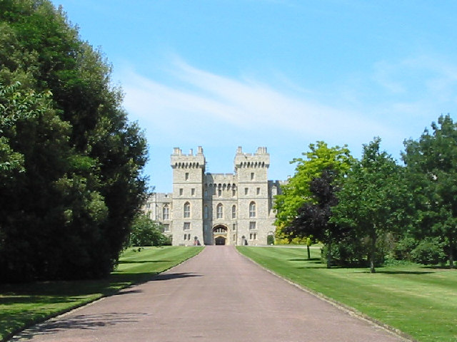 The Long Walk, Windsor. This photo is taken from the Long Walk, looking towards Windsor Castle. The walk is about three miles long. Most of the rest of this square is taken up by Home Park, and the Queen's private gardens.